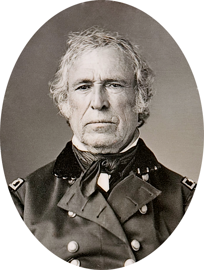 cropped version of Half-Plate Daguerreotype of Zachary Taylor.